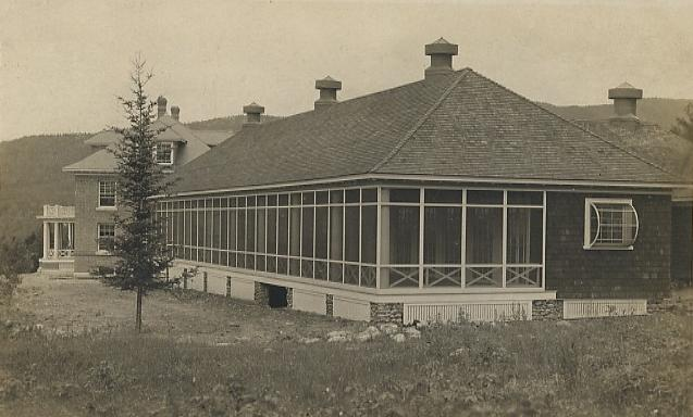 Ward Building, State Sanatorium, Glencliff, New Hampshire